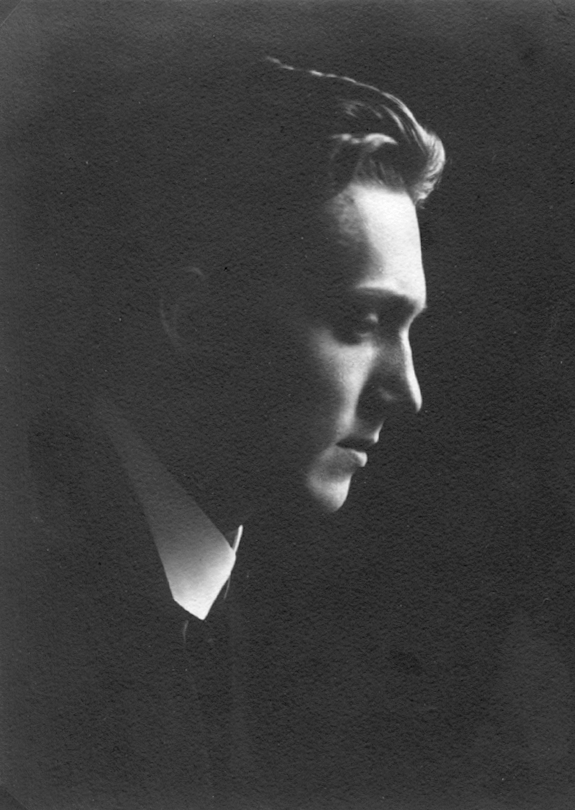 Trygve Gulbranssen, 1915